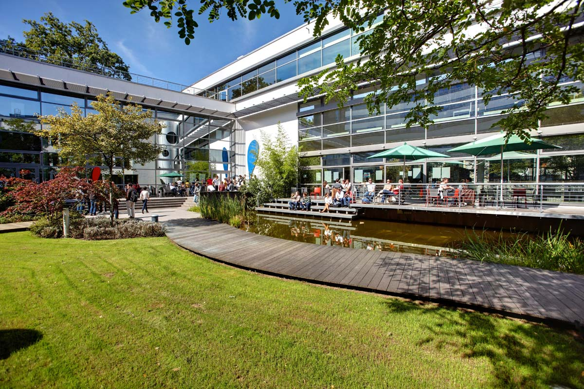 Campus of the Frankfurt School of Finance & Management